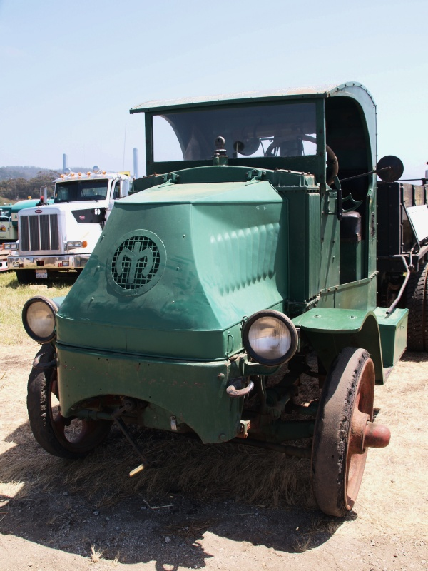 Model AC, International Motor Co. (Mack Trucks, Inc.) Pacific Coast Dream Machines 2009, Half Moon Bay, CA